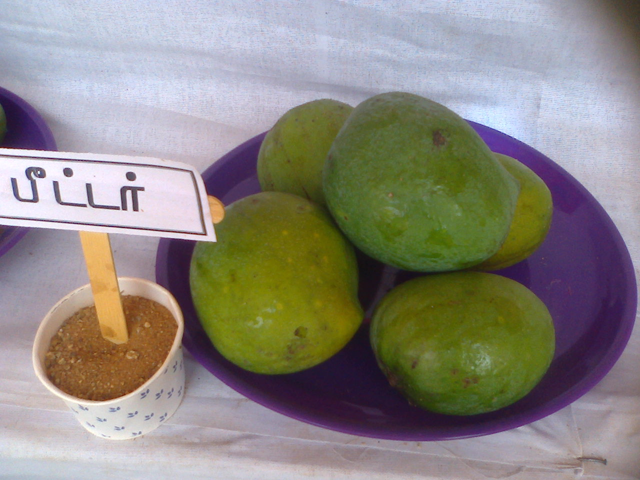 பீட்டர்